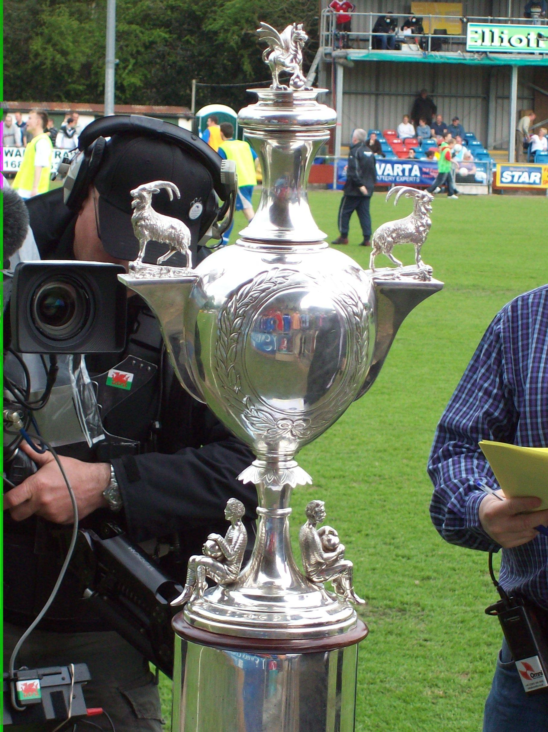 Welsh Cup taken before 2007/08 Final